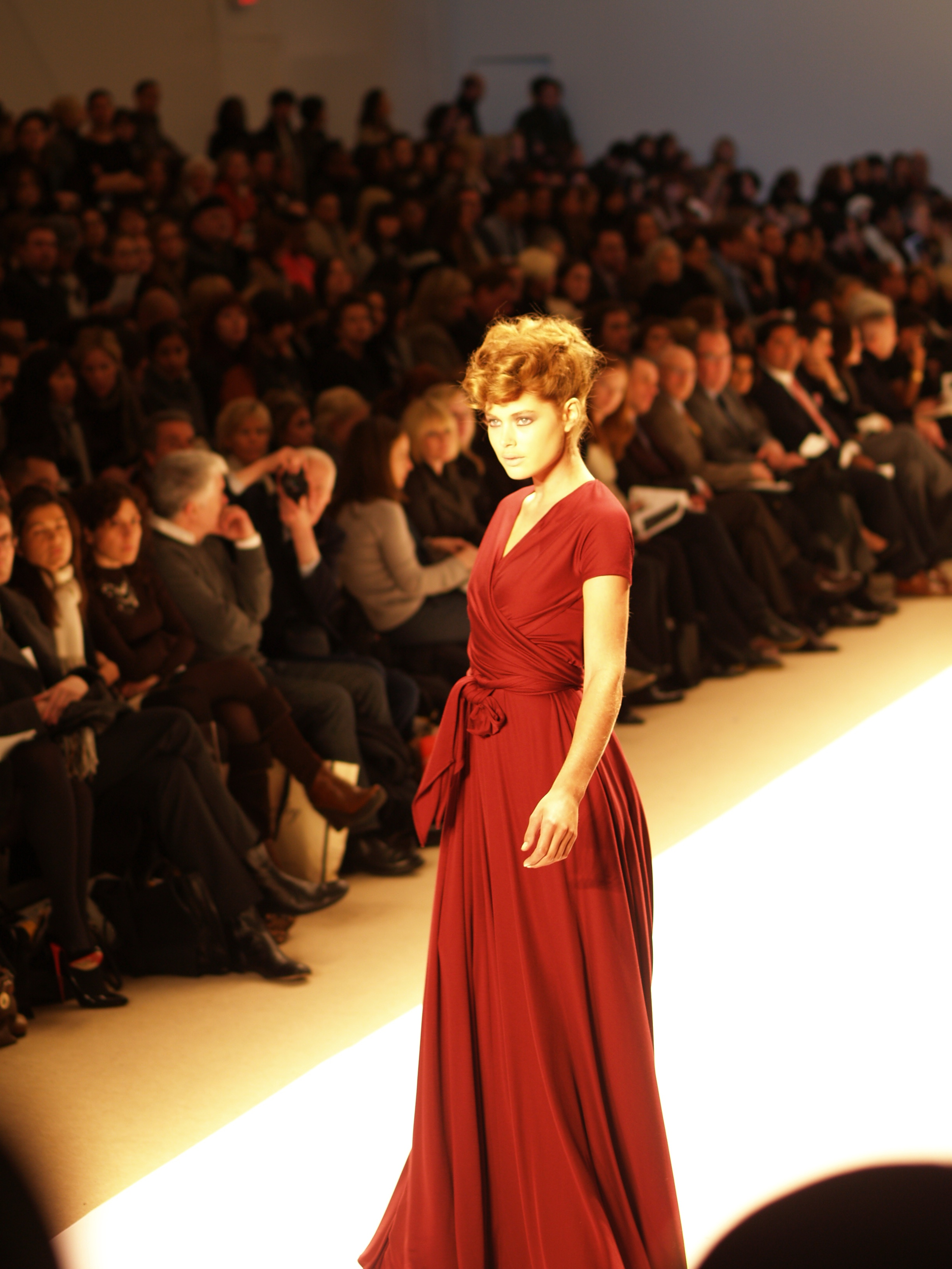 Doutzen Kroes modeling, Doo.Ri fall 2007 collection, New York Fashion Week